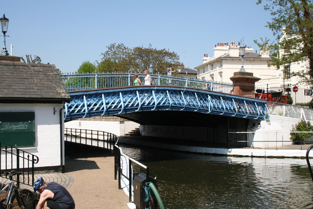 Westbourne Terrace road bridge, Little Venice Looking west. Through the bridge, and some 13 miles (but no locks) later, and you will arrive at Bulls Bridge Junction on the Grand Union main line